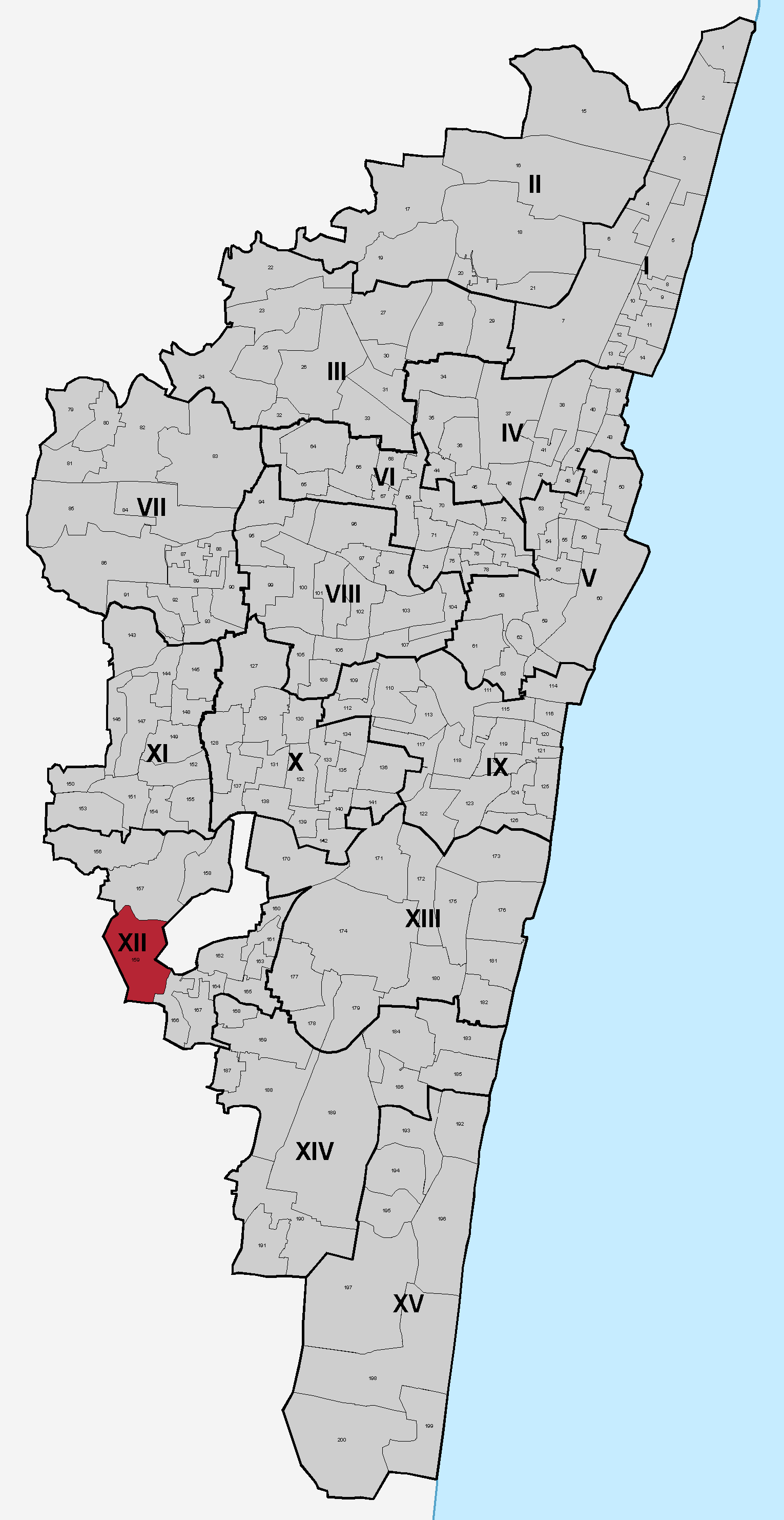 Location of Meenambakkam (ward no. 159) in Chennai